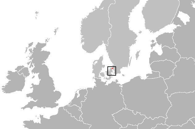 Article "HH ferry route" has a small map of Øresund and surroundings. This map indicates where the other map is to be found. Made from a map found in article "Scandinavia" as base.